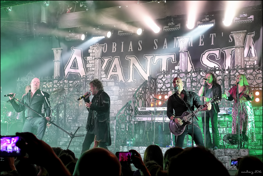 Avantasia performing live in Madrid on 13/03/2016. (from left to right) Michael Kiske, Tobias Sammet, Oliver Hartmann, Herbie Langhans and Amanda Somerville